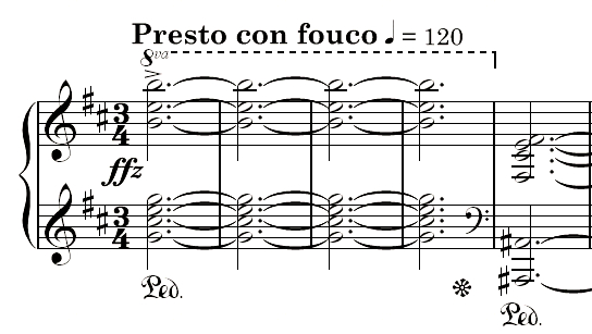 F. Chopin's Scherzo in B minor, Op. 20